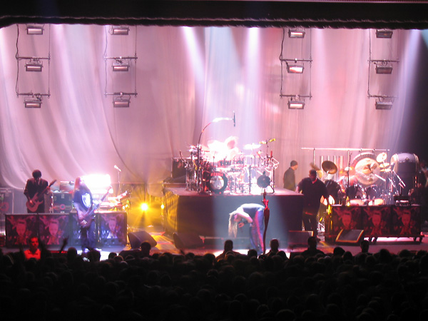 Korn (See You On the Other Side Tour)